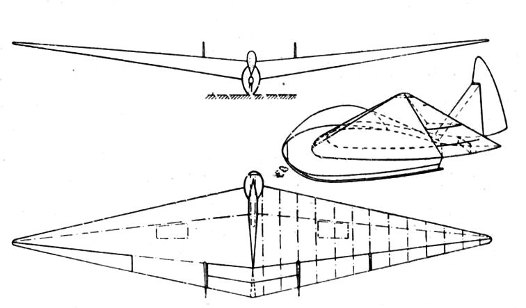 Fauvel AV-3 3-view drawing from L'Aerophile January 1934